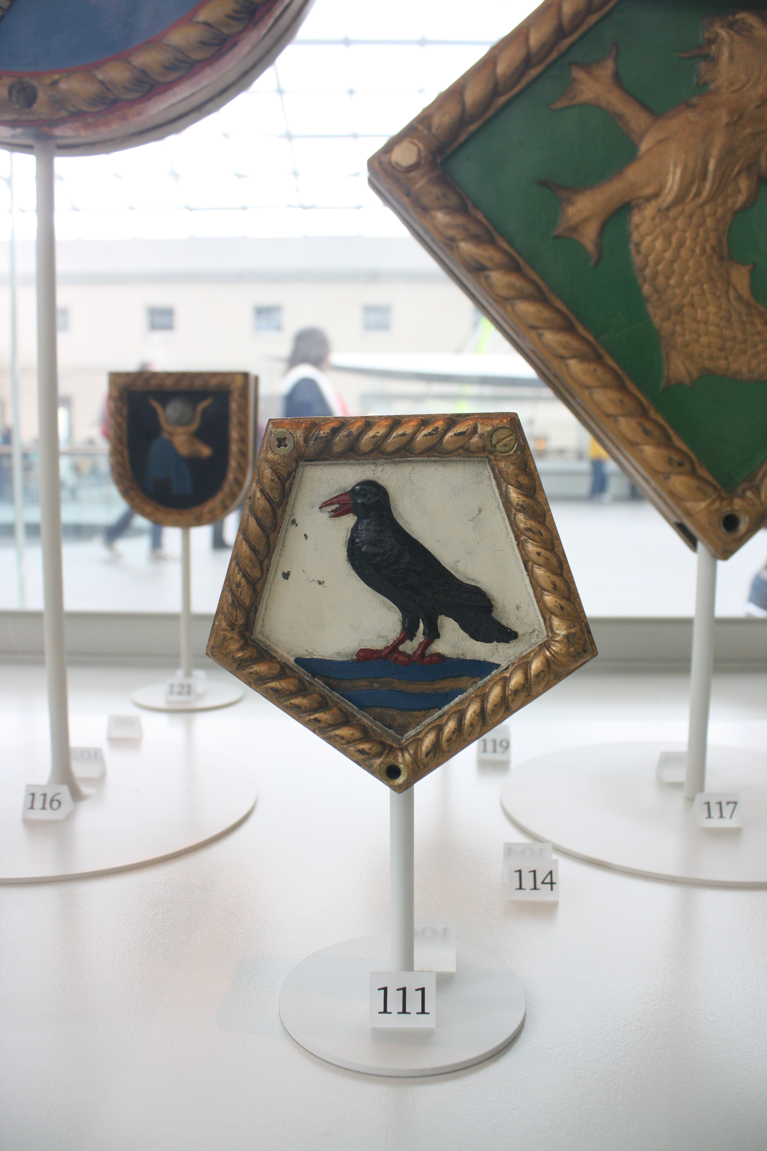 Ship heraldry at the NMM